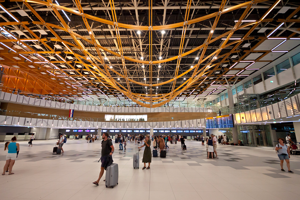 Main departure hall of the terminal at Split Airport.